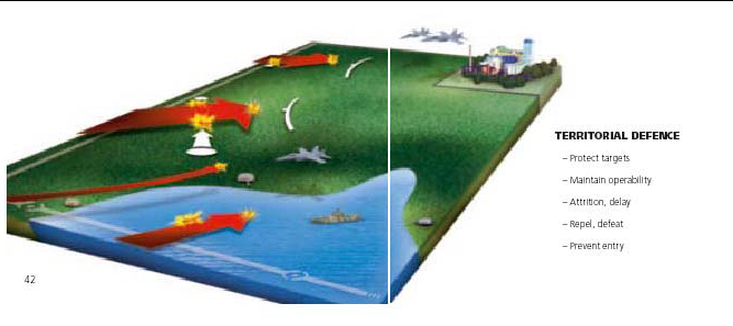 A figure illustrating the doctrine of territorial defence, the basis of the Finnish military policy.